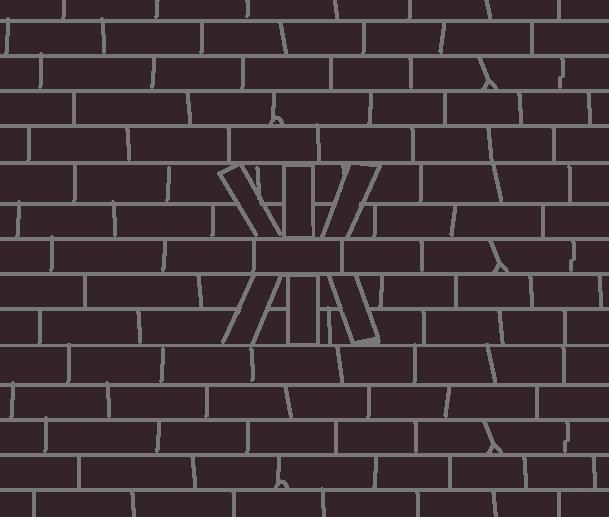 Dutch masonry, a traditional spell against lightning